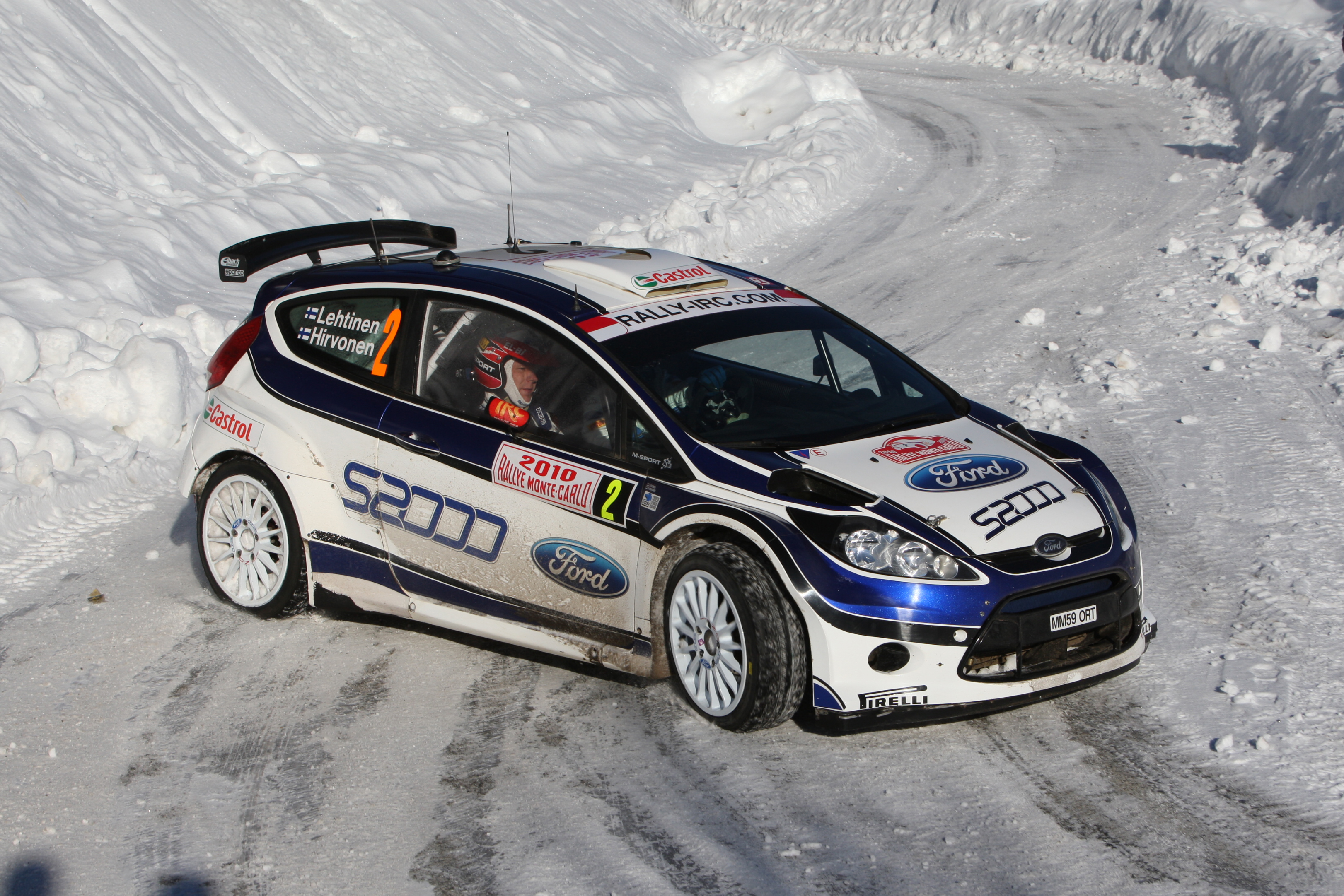 Mikko hirvonen / Jarmo Lehtinen - Ford Fiesta S2000. Day three, 2010 Monte Carlo Rally.